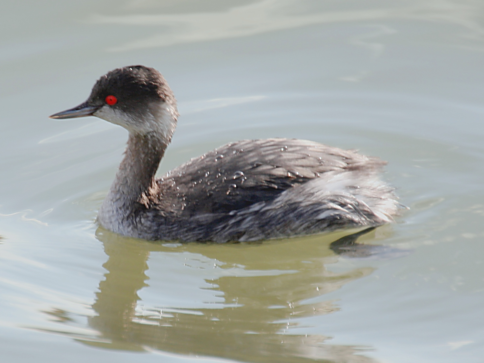 Black-necked Grebe, Jan. 2007, Ibaraki JAPAN